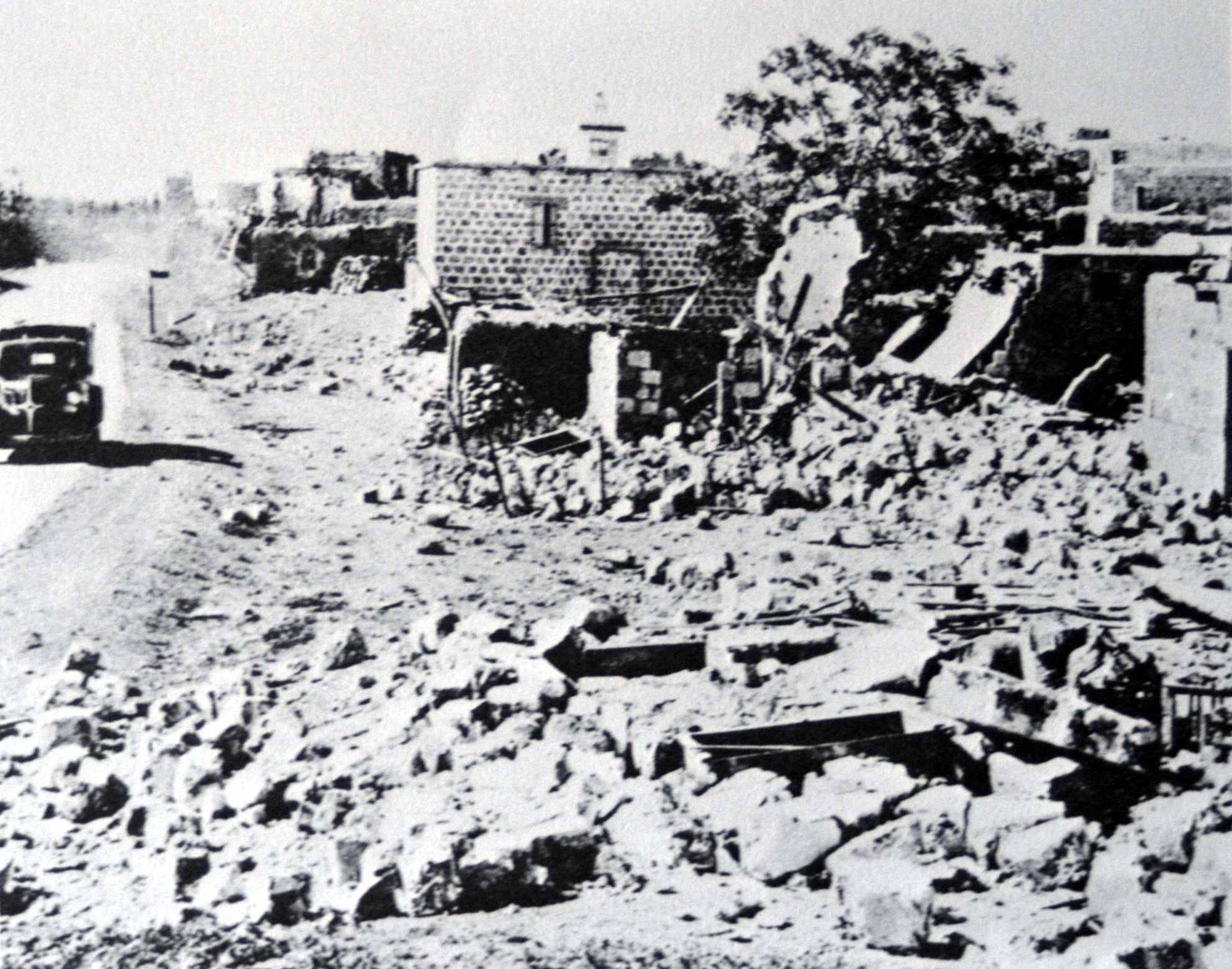 Ruins of the village of Sumeiriya, just north of Acre.